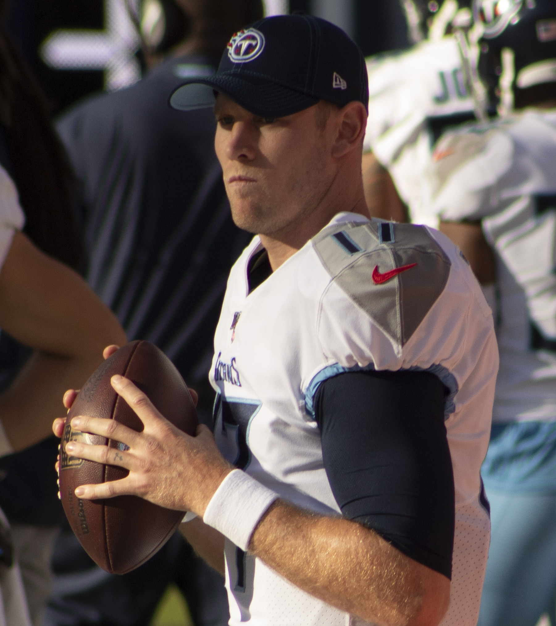 Ryan Tannehill with the Tennessee Titans on October 13, 2019